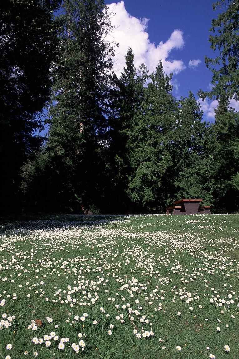 I took this photo. You can find it here.